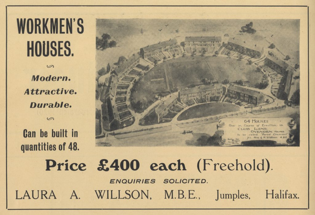 From-Tim-Historic-England-document-1024x700 - she died 1942 guess the ad is between the wars maybe 1930